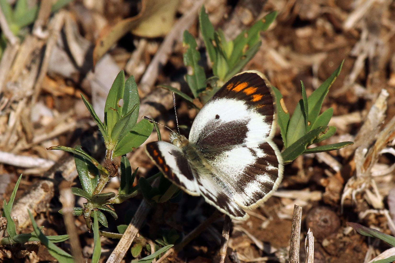 Bushveld orange tip butterfly (Colotis pallene) female, uMkhuze Game Rserve, KwaZulu Natal, South Africa